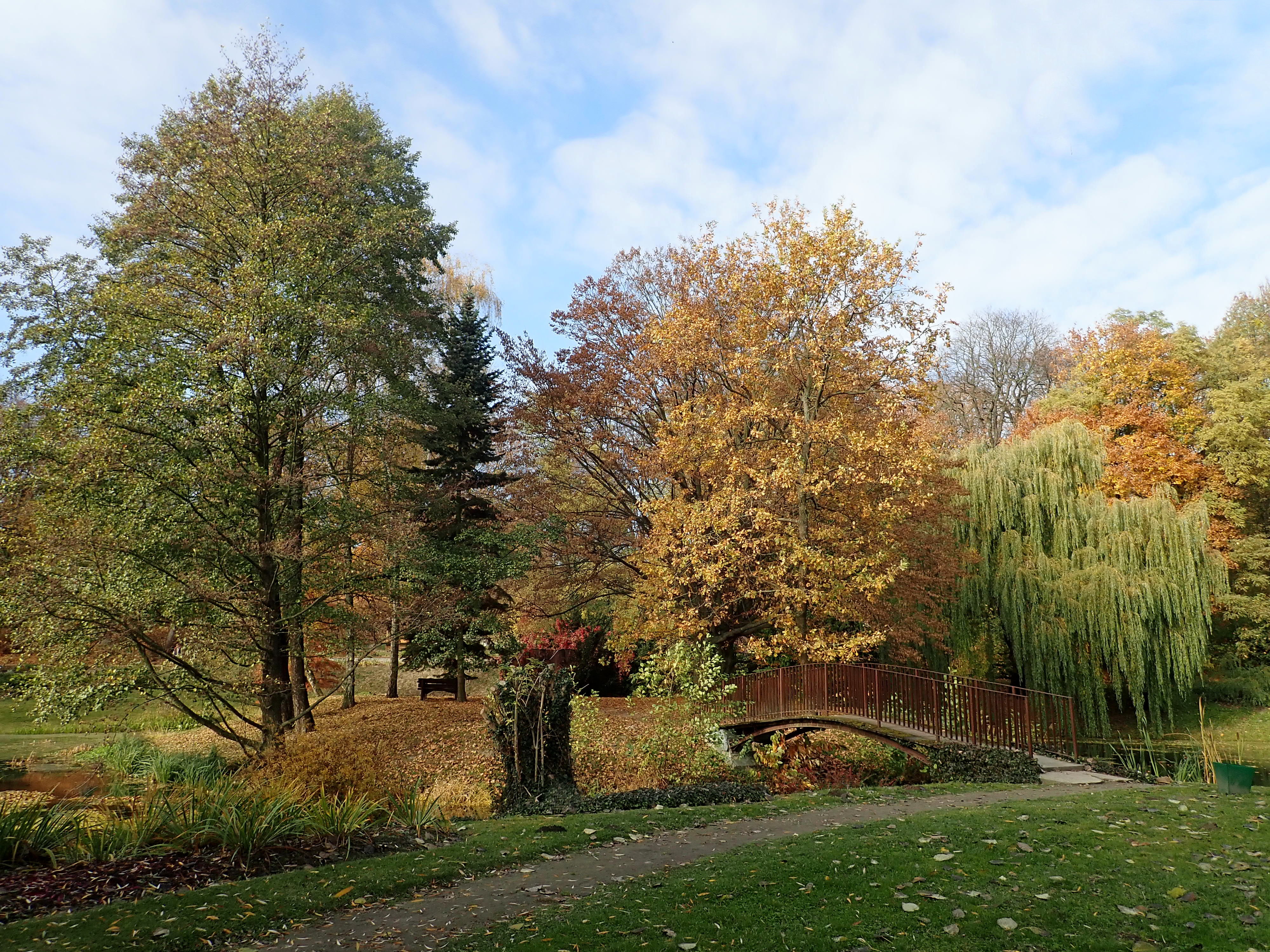 UMCS Botanical Garden in Lublin.